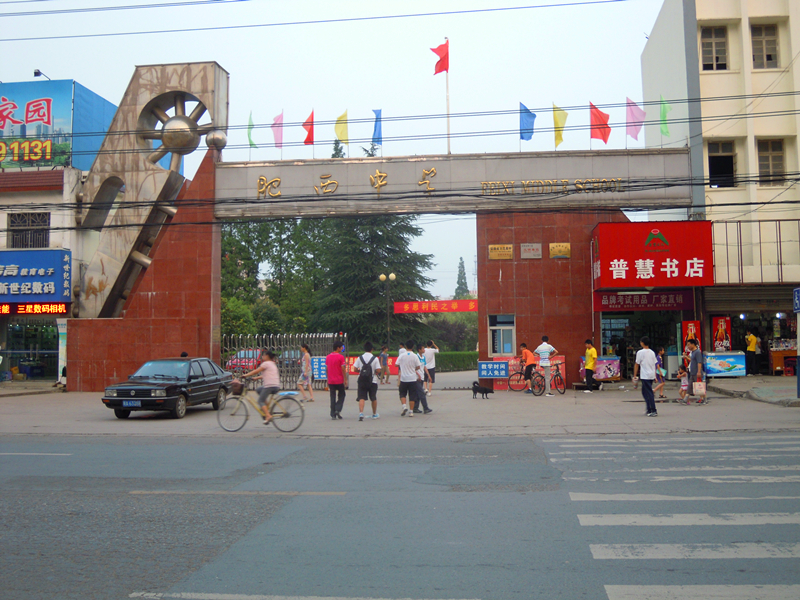 The main gate of Feixi High School, in Feixi County, Hefei City, Anhui